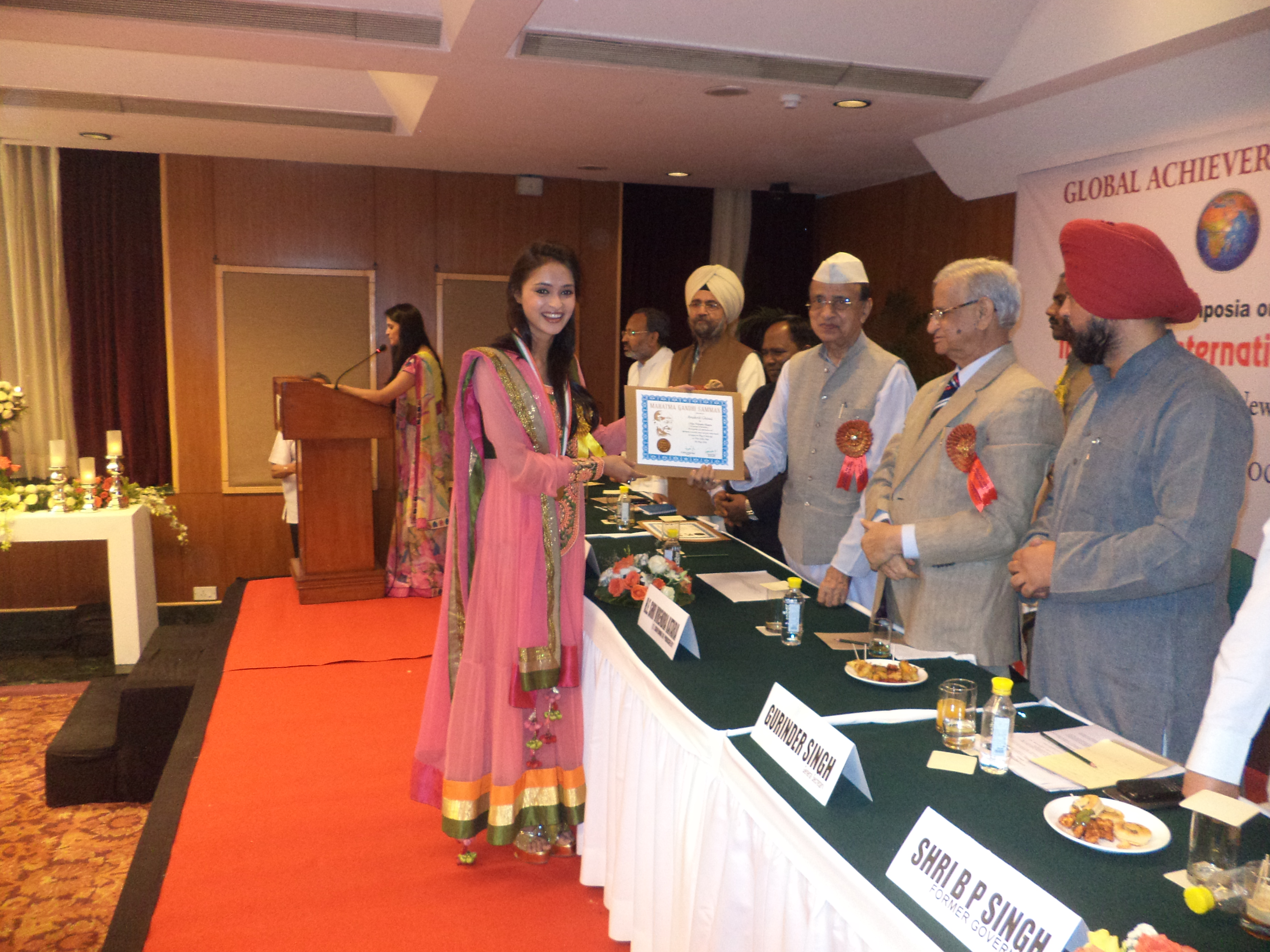 Anukriti Gusain receiving Mahatma Gandhi Samman on 7 May 2014. (India Habitat Center)